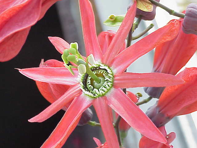 Species: Passiflora racemosa Family: Passifloraceae Image No. 3